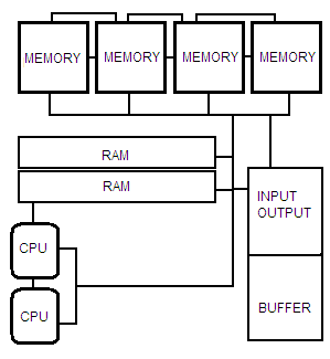 A visual representation of the design logic behind a fault-tolerant computer hardware design. Dual CPU's isolated, with redundant memory, redundant RAM, and a buffer to store all incoming input for user error and all output for logical consistency and voting.